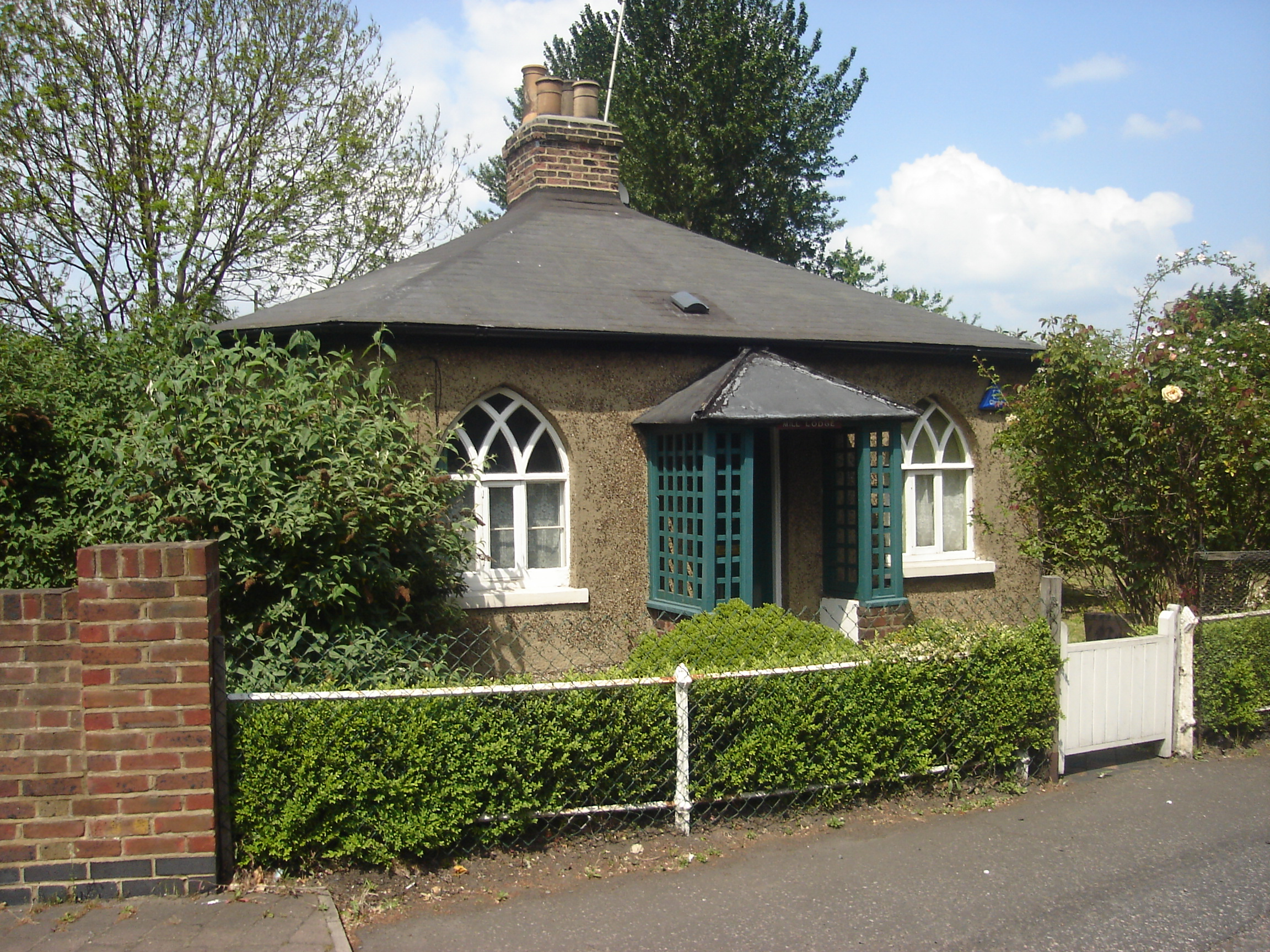 Picture of the lodge at Wright's Flour Mill